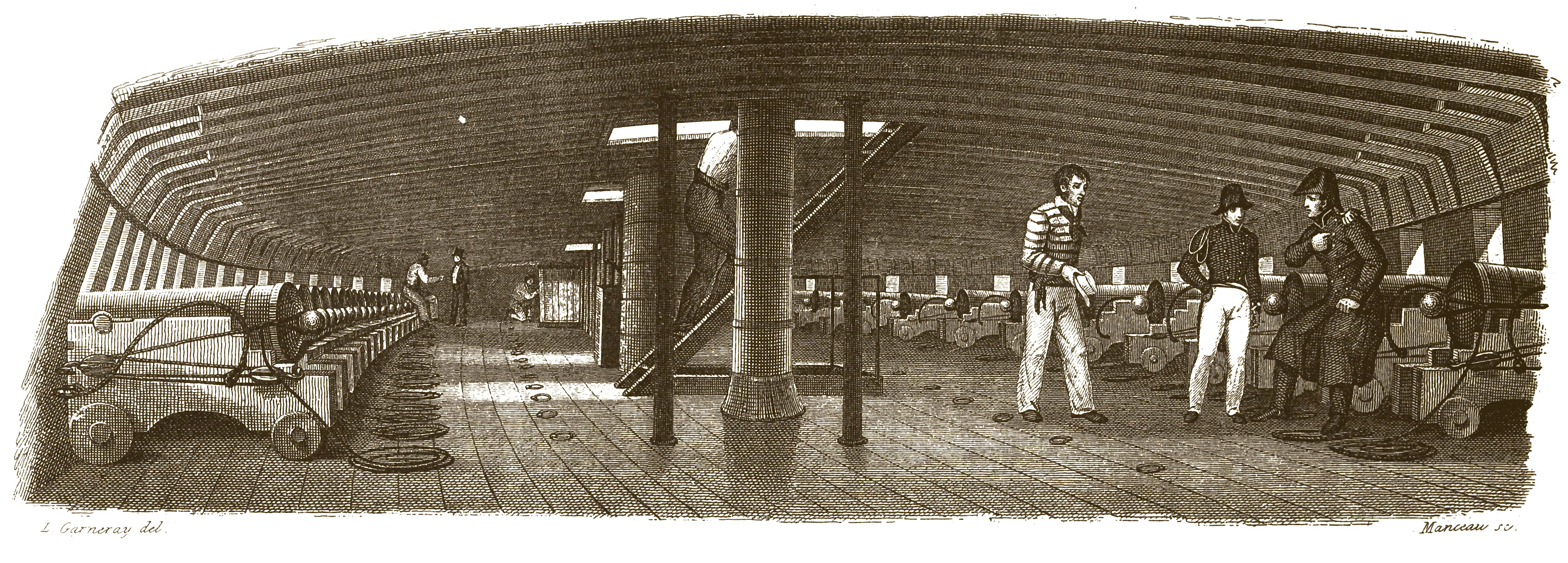 Main batteries of the Sailing Frigate, Méduse